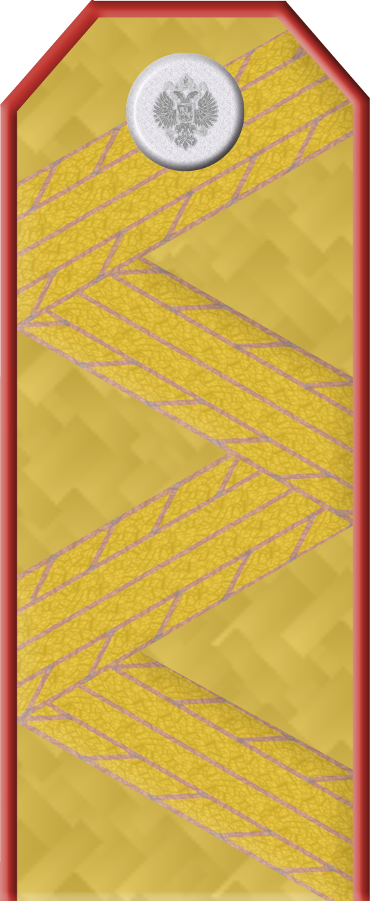 Rank insignia of the Imperial Russian Army, here "General of the branch" – shoulder board 1909-1917 for officers of infantry, cavalry, 1st and 2nd Guard-Infantry-Division (excepted chief squadron / company) and Guard-Cavalry-Regiment. This shoulder board was also used for the ranks General of infantry, General of cavalry, and from 1904 General of artillery.